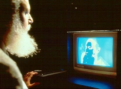 Biofeedback-generated digital portrait of Mel Alexenberg created at MIT for Yeshiva University Museum "LightsOROT" exhibition